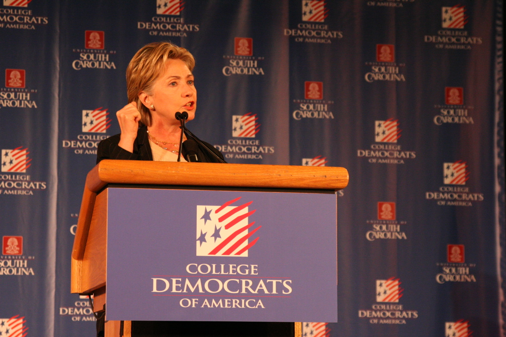 Hillary Clinton Speaks to College Democrats